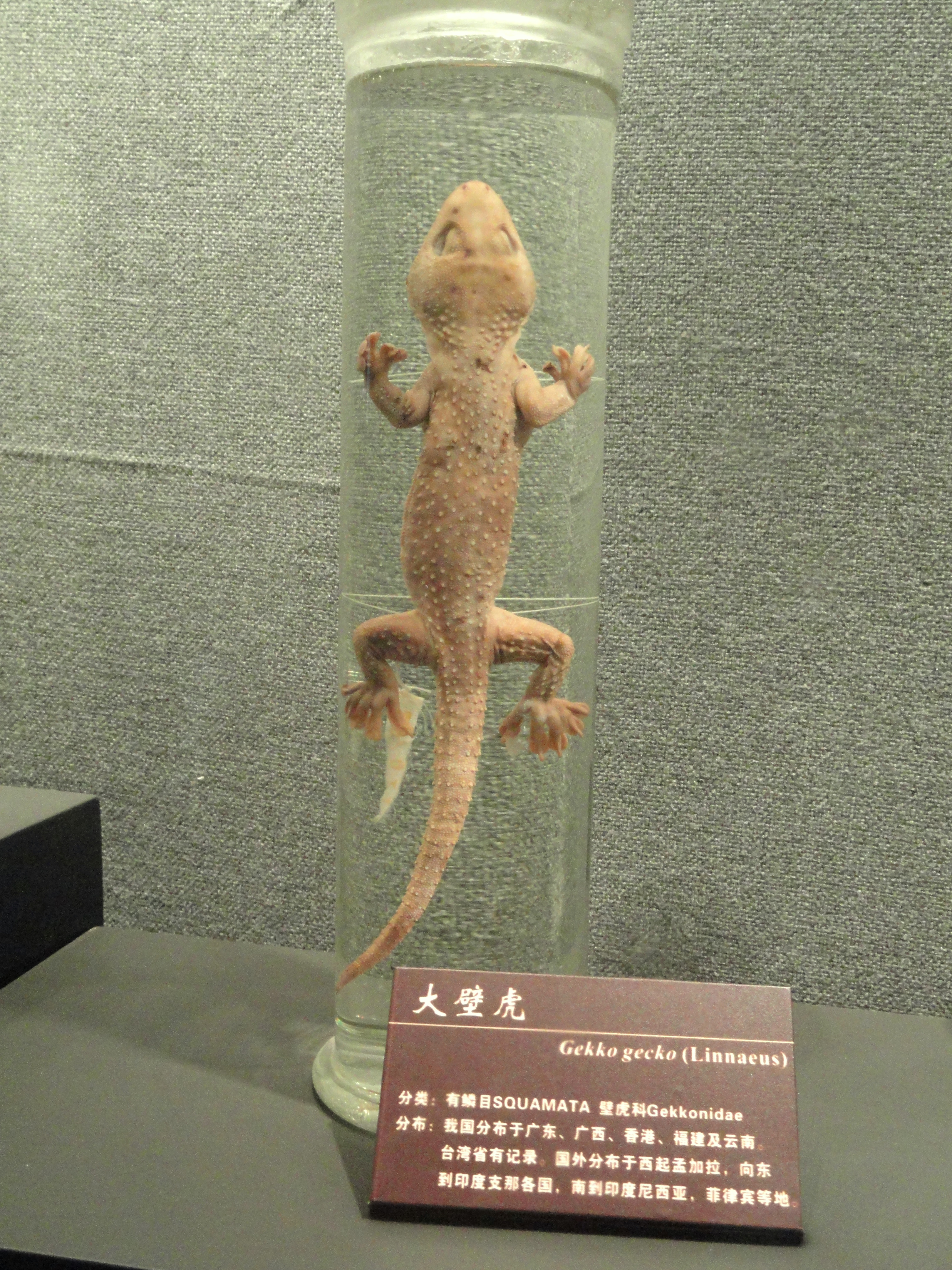 Preserved specimens in the Kunming Natural History Museum of Zoology (昆明动物博物馆), Kunming, Yunnan, China.